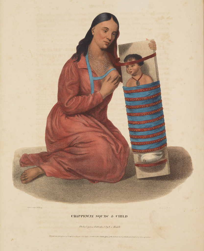 Title: Chippeway Squaw & Child. Creator: Lehman & Duval Lithrs (lithographer); King, Charles Bird, 1785-1862 (painter) Date: 1842 Part Of: of the Indian tribes of North America, with biographical sketches and anecdotes of the principal chiefs/ Series: of the Indian tribes of North America, Volume 1/ Description: This portrait is part of History of the Indian Tribes of North America, with Biographical Sketches and Anecdotes of the Principal Chiefs. Embellished with One Hundred and Twenty Portraits, from the Indian Gallery in the Department of War, at Washington. By Thomas L. M'Kenney [McKenney], Late of the Indian Department, Washington, and James Hall, Esq. of Cincinnati. Volume 1. Philadelphia: Published by Daniel Rice and James G. Clark, 132 Arch Street. 1842. Physical Description: 1 print: lithograph, part of 1 volume; 52 x 38 cm File: vault_folio_5_e77_m13_1842_1_122c_opt.jpg Rights: Please cite DeGolyer Library, Southern Methodist University when using this file. A high-resolution version of this file may be obtained for a fee. For details see the web page. For other information, . For more information, View North America: Photographs, Manuscripts, and Imprints